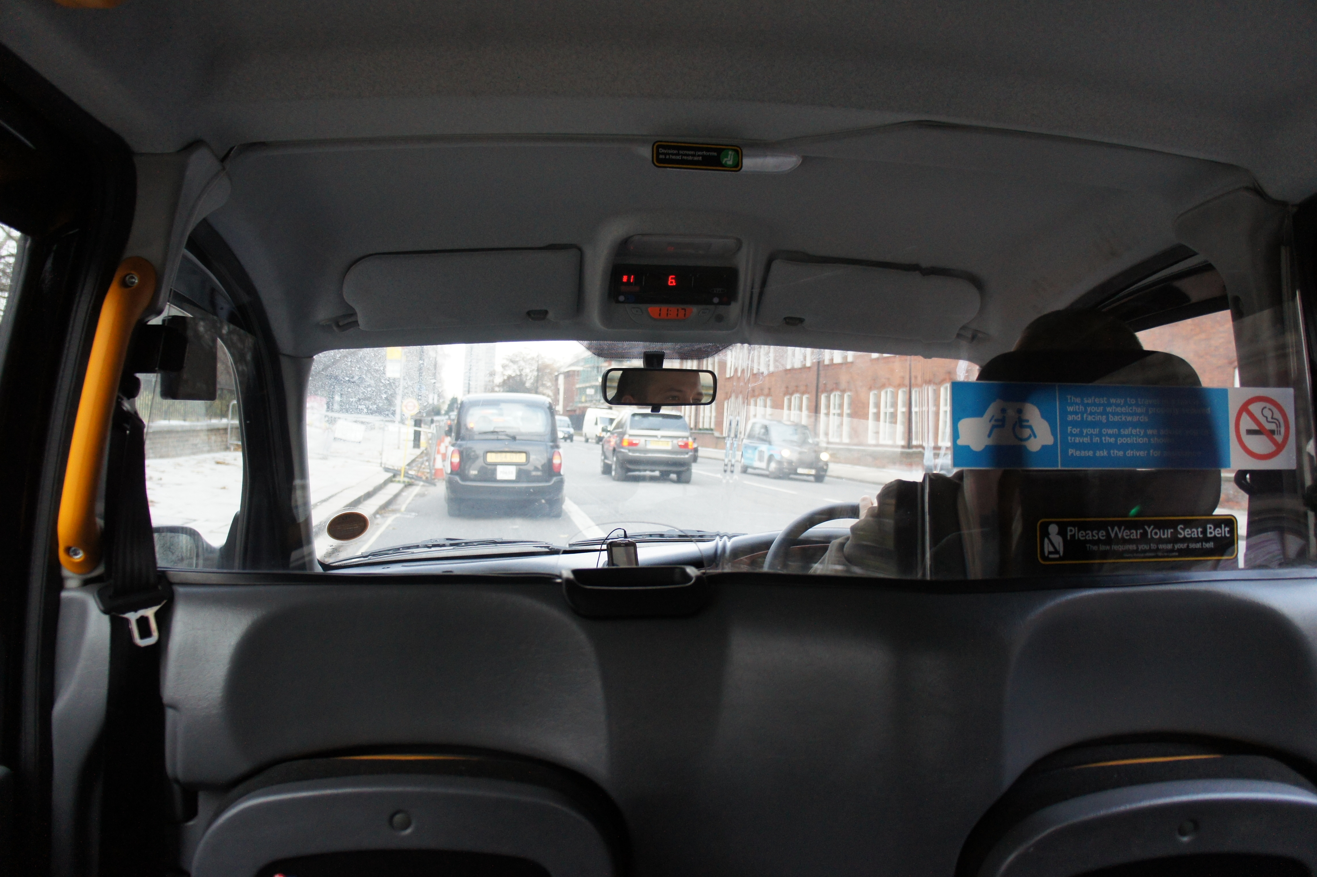 Driving in a London cab